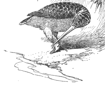 Illustration of the "woodcock genius" performing "animal surgery" by Charles Copeland, included in the book A Little Brother to the Bear by American naturalist and author William J. Long.